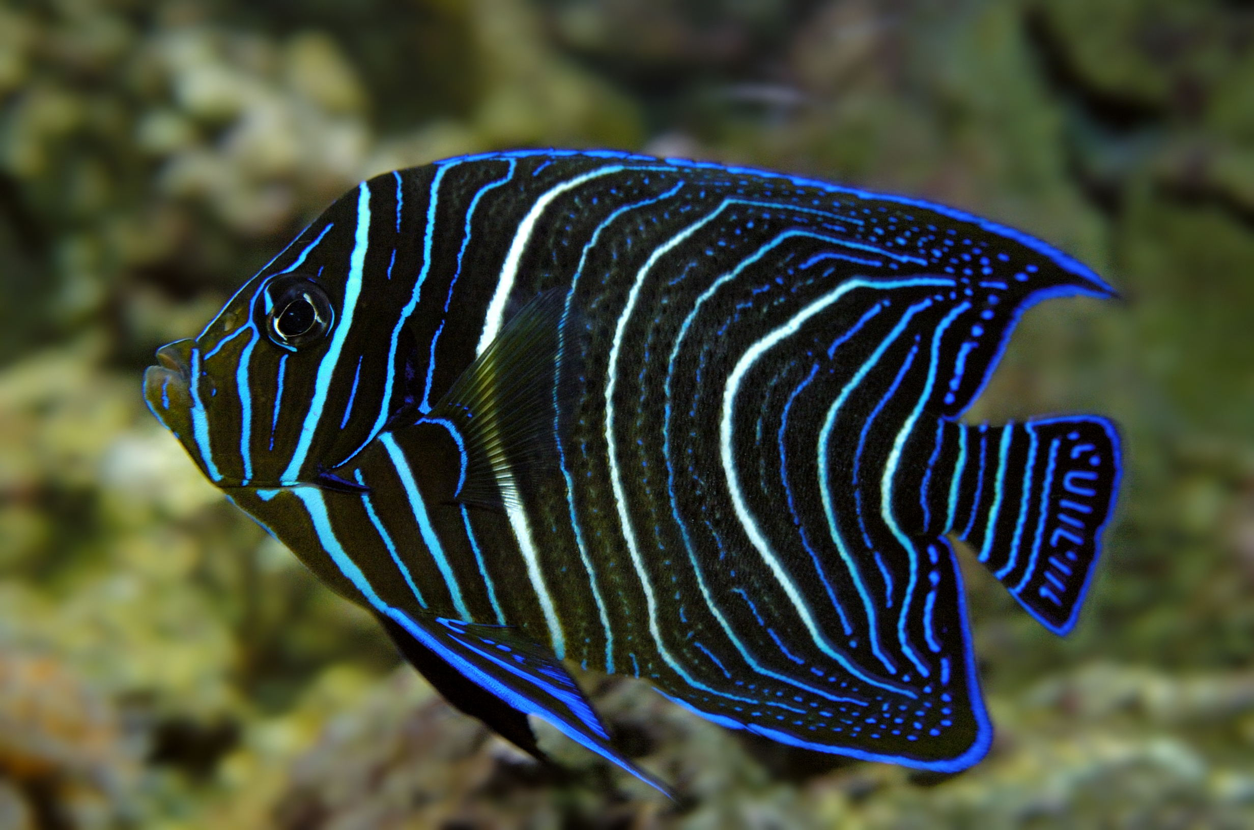 Austria, Vienna, Tiergarten Schönbrunn